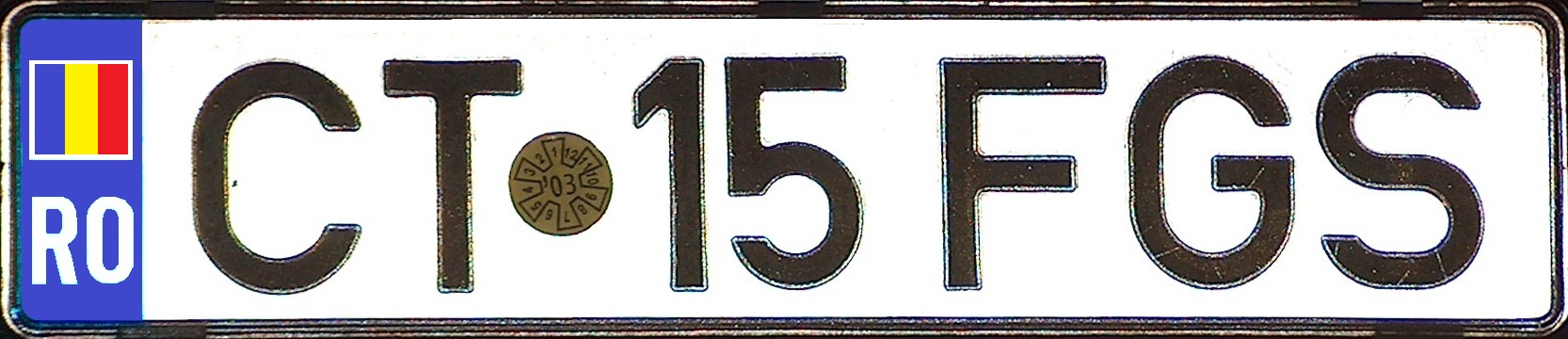 An old Romanian licence plate from Constanta.